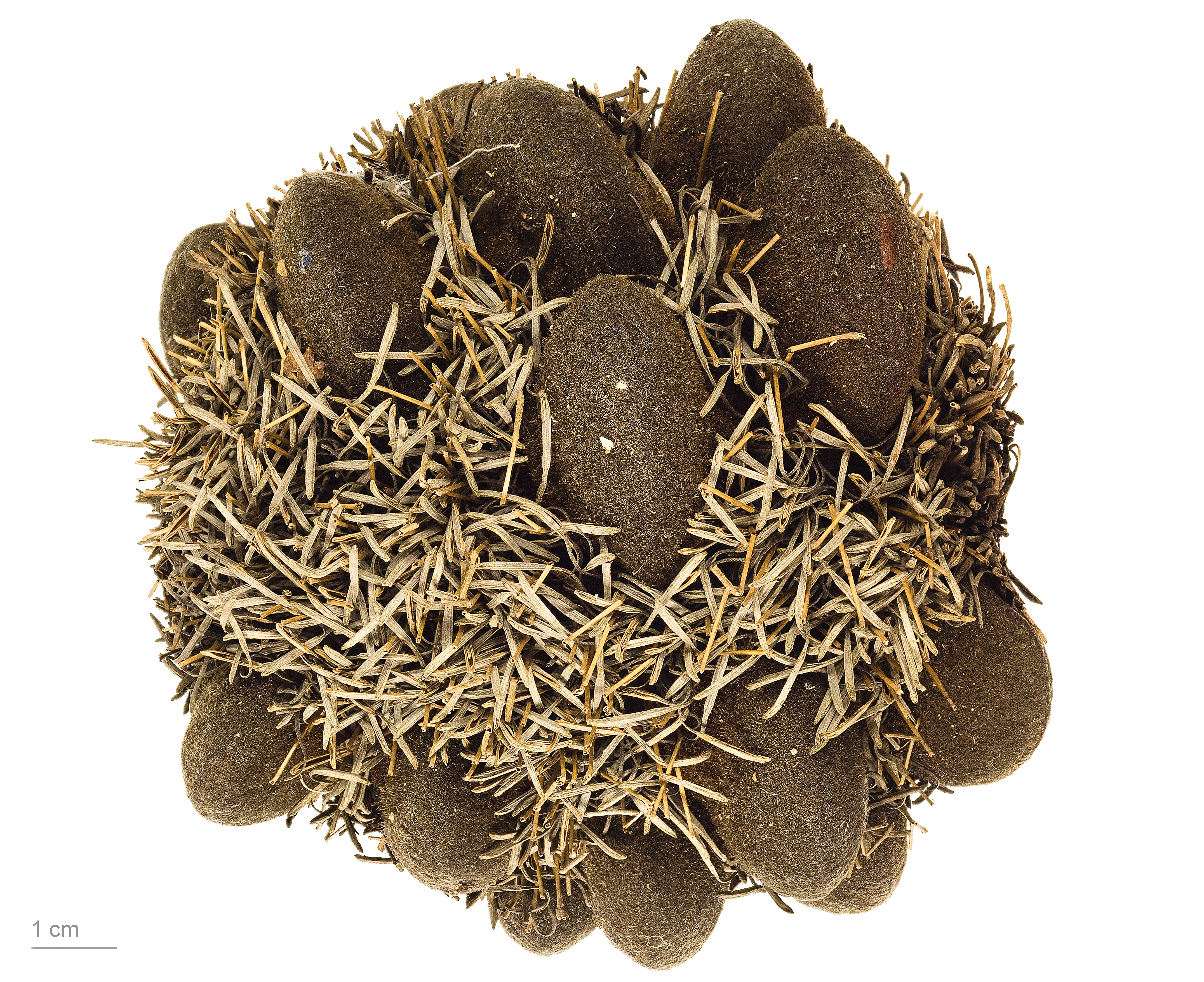 red lantern banksia , fruits and seeds